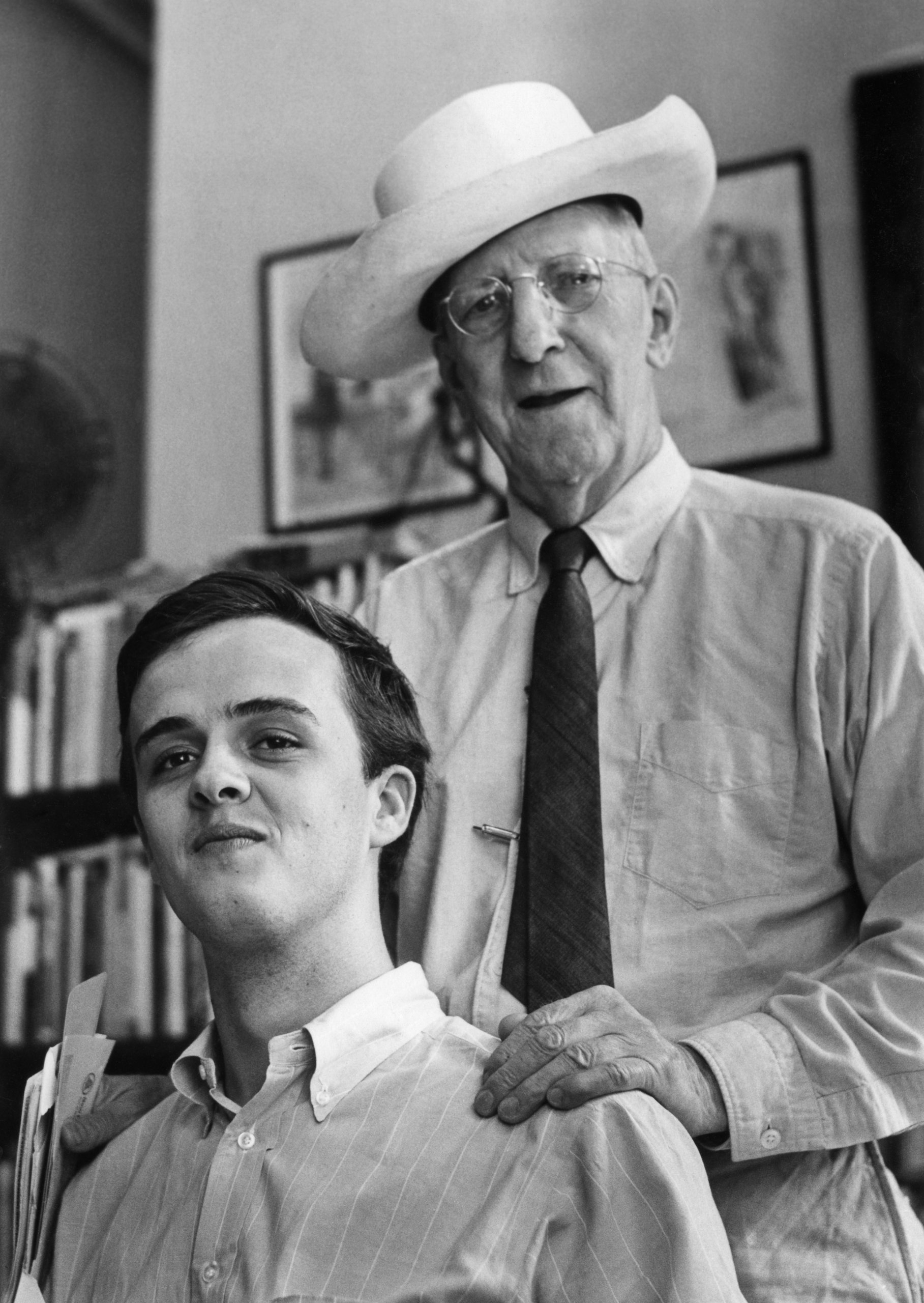 At the Grolier Bookshop in Harvard Square in the 1960s.